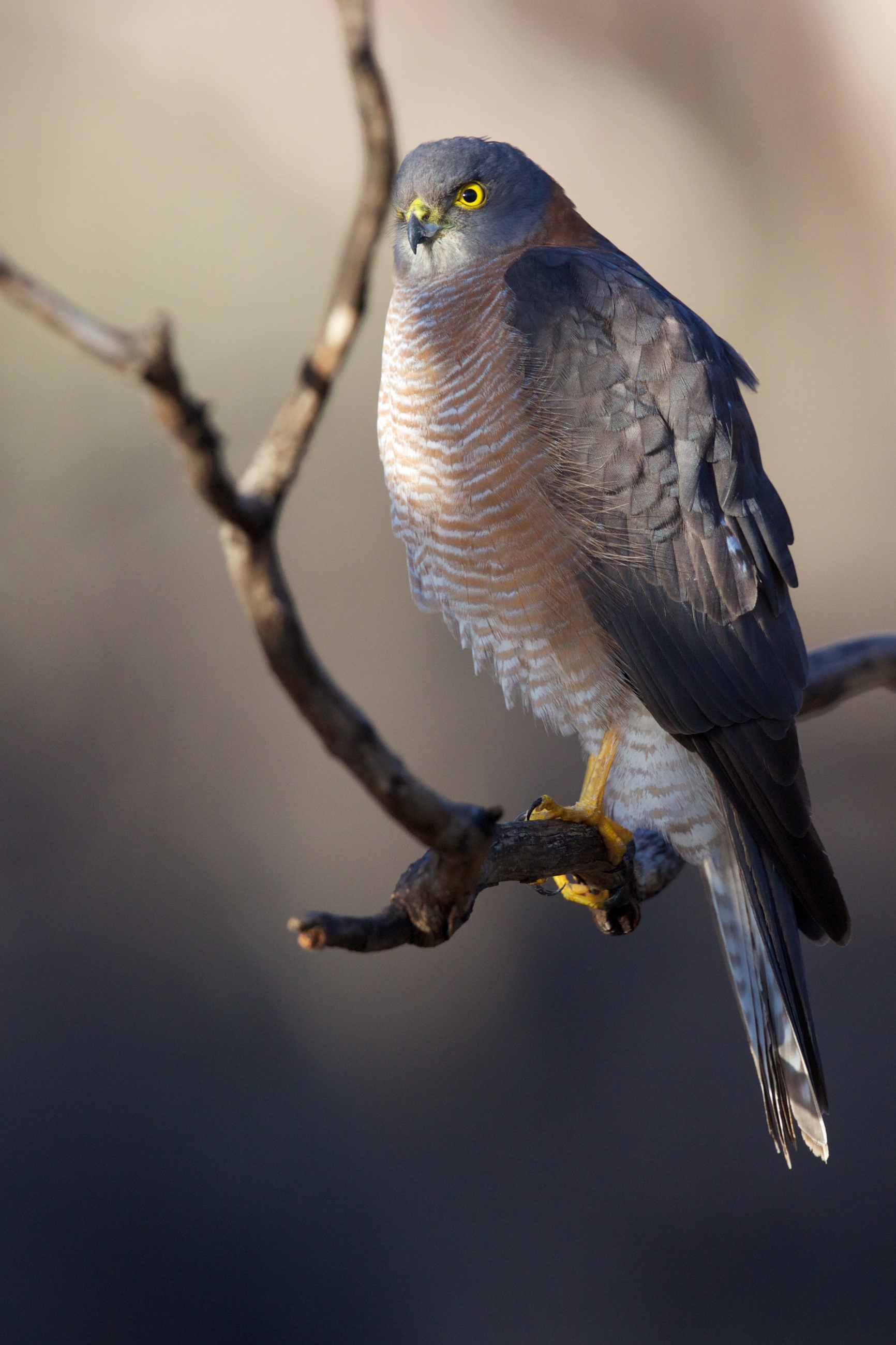 Accipiter cirrocephalus: Old Gluepot, Birdlife Australia Gluepot Reserve, South Australia. This one looked like it was a regular and hung out often at the Old Gluepot water point. It was a real treat to be rewarded by sitting still and being patient enough to watch it gradually come closer. It probably takes advantage of smaller birds coming to the water. Though it went hungry there this day. He was the only action there! Probably due to all the rain, there were puddles and other places for the birds to drink and bathe. It returned this day and then we saw it again here the next day as well. My first encounter was at camp. I was sitting in the van, and it (this same one maybe, it wasn't far from where this one was taken) flew down into a branch at eye level only a couple of metres away, and we eyeballed each other for what seemed like ages, before he flew off to a tree nearby and looked back at me. We both had to recover from the shock, I think. I was able to get a photo from there but not a very good one because of the light. I am so glad I had this second encounter.